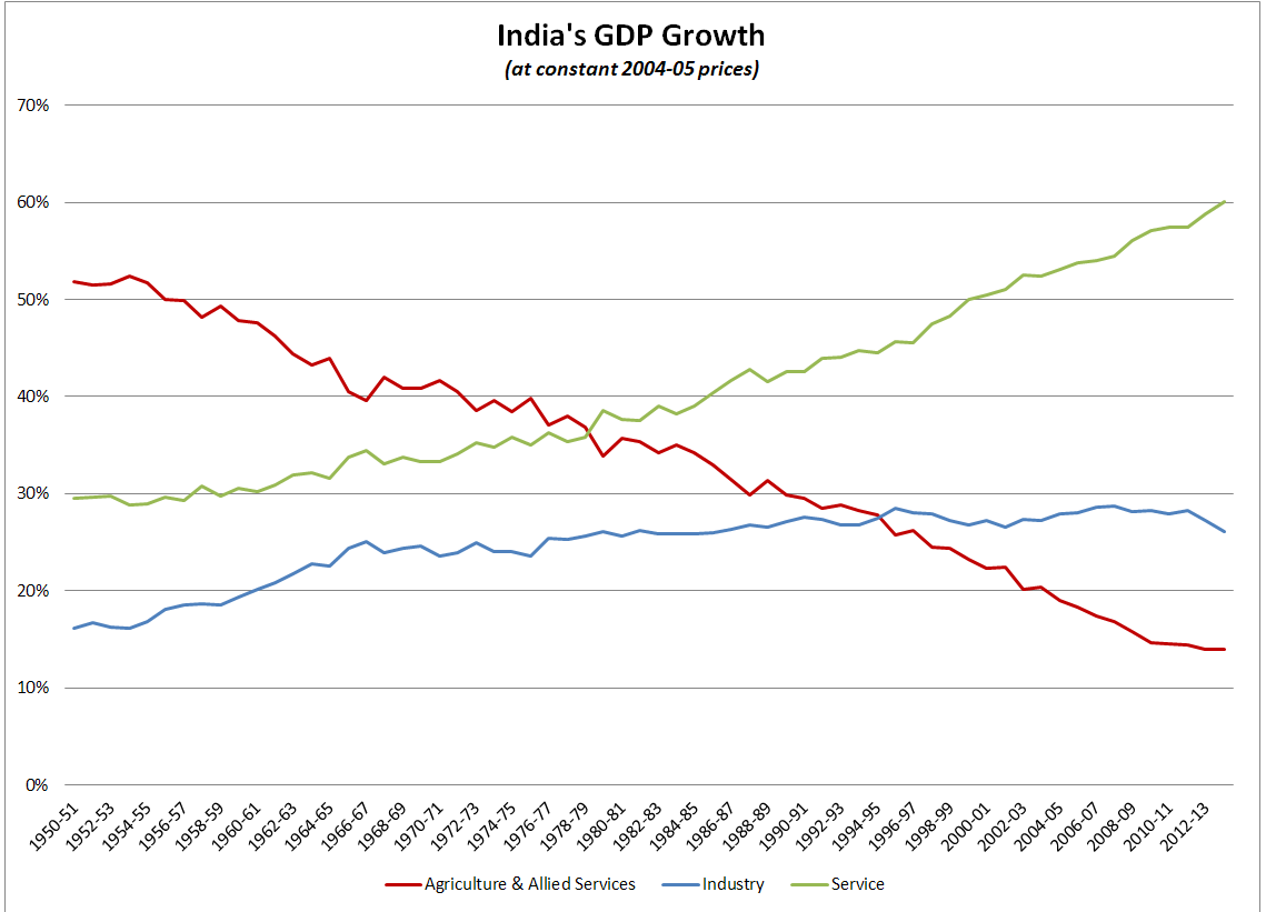 Share of economic sectors as part of India's GDP Growth (at constant 2004-05 prices)